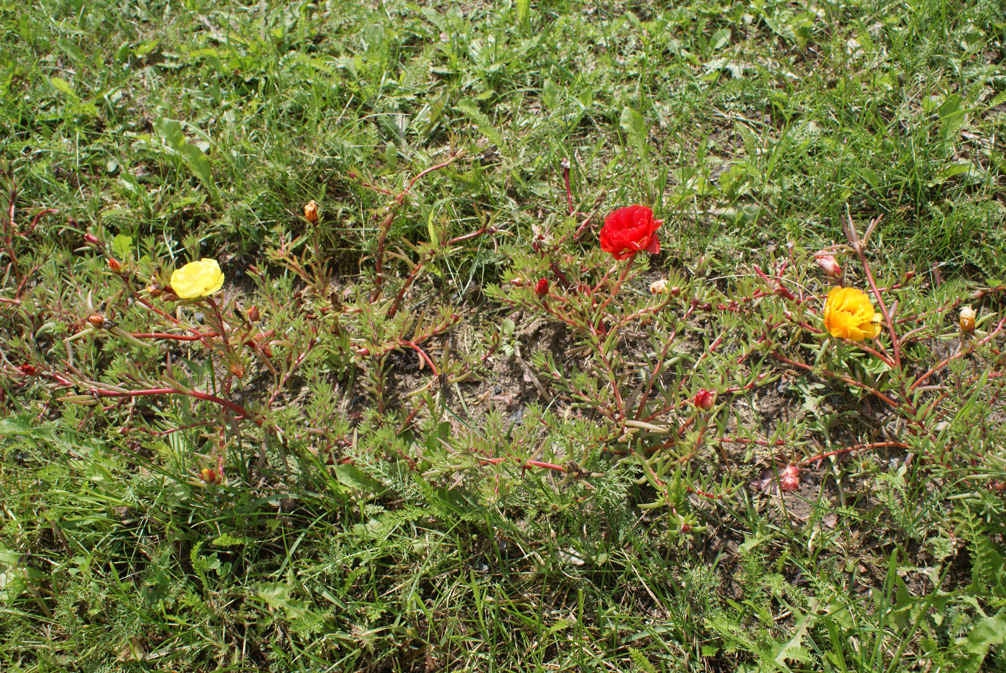 Portulaca grandiflora (Belarus)